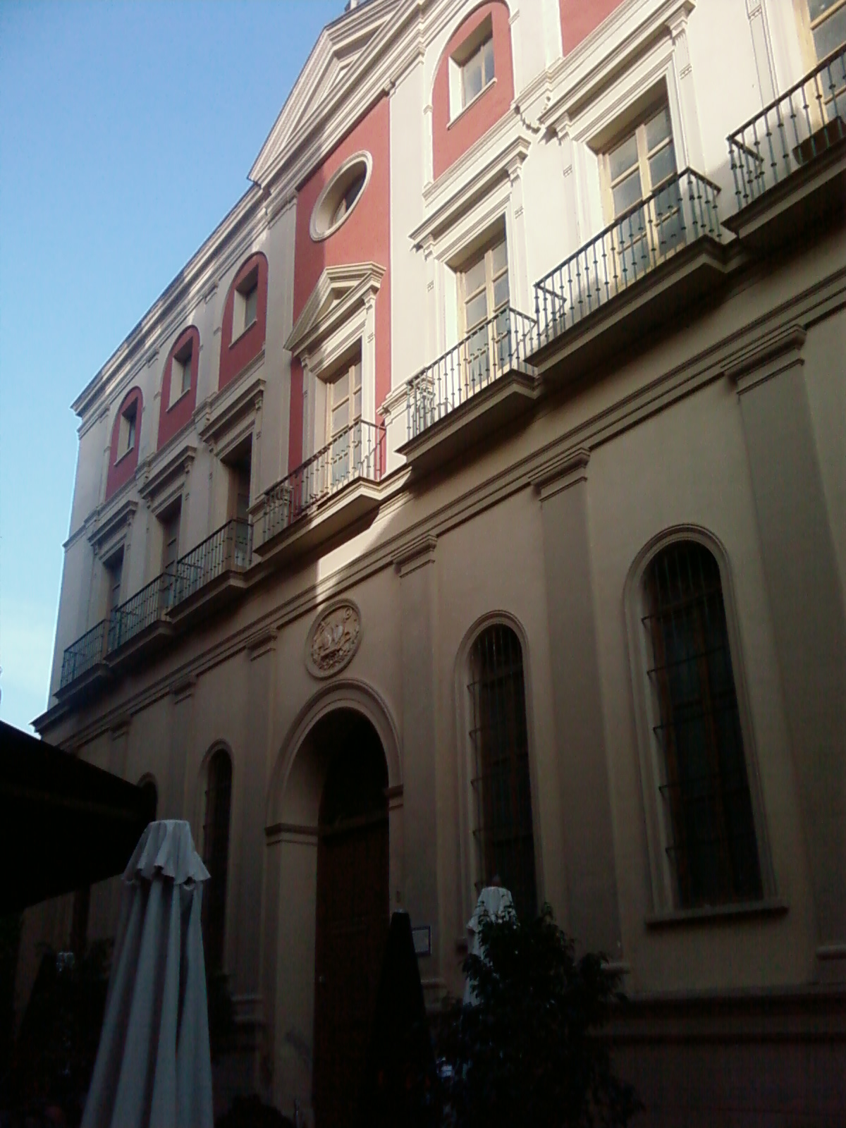 Convent of Saint Augustine, Málaga, Spain